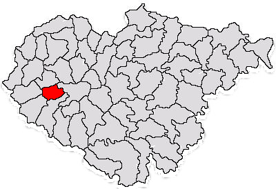 Map Salaj County Romania